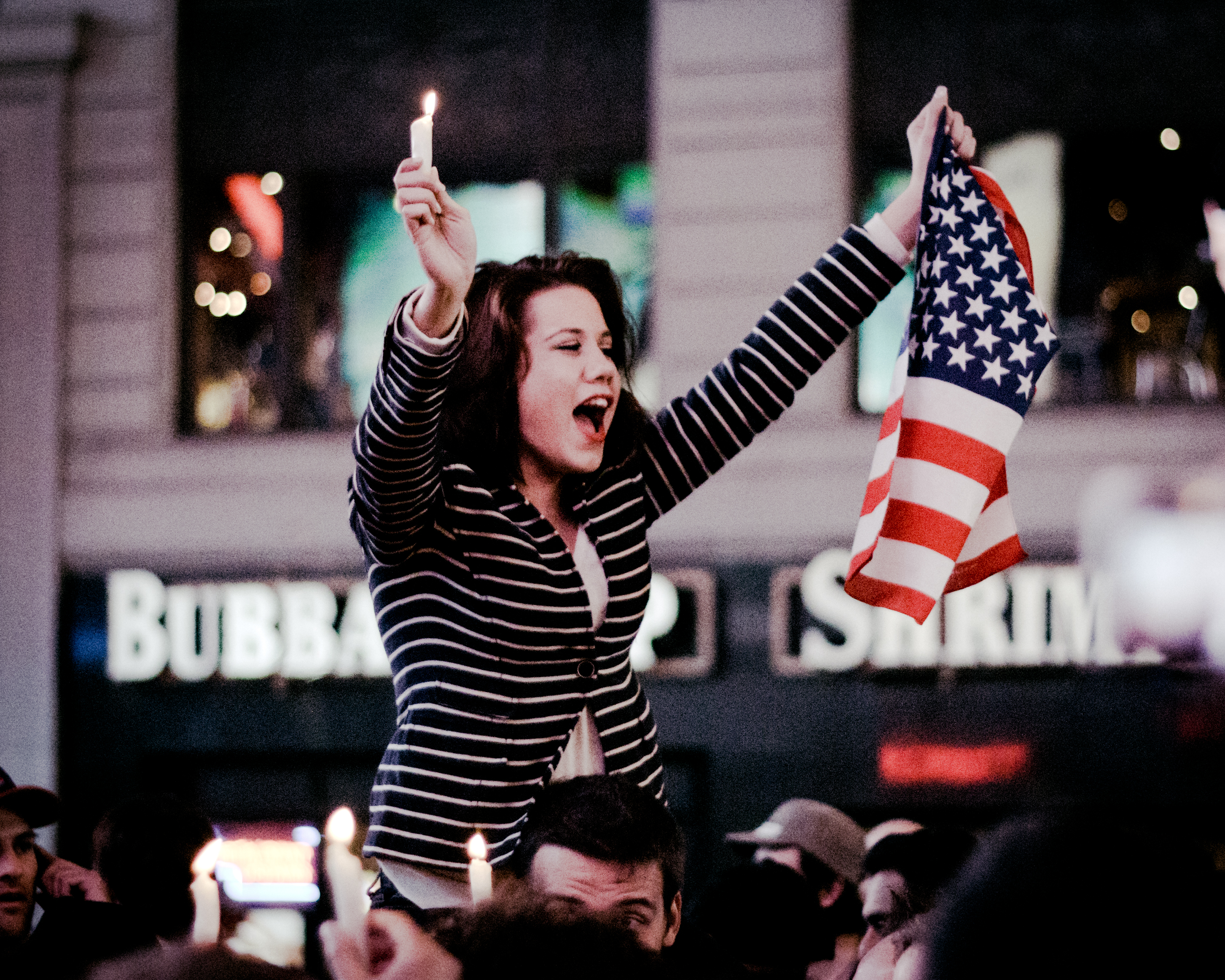 Celebrations in Times Square for the death of Osama bin Laden. New York, May 2, 2011.